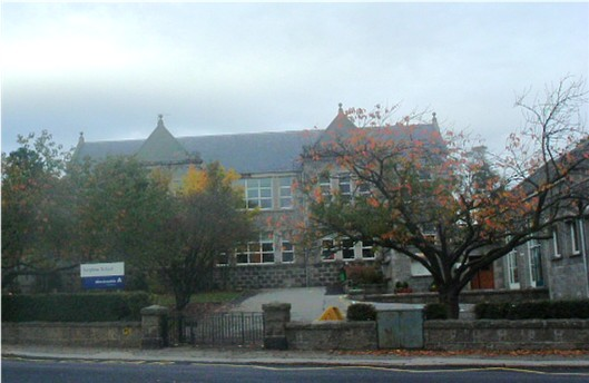 Torphins school, Torphins, Aberdeenshire